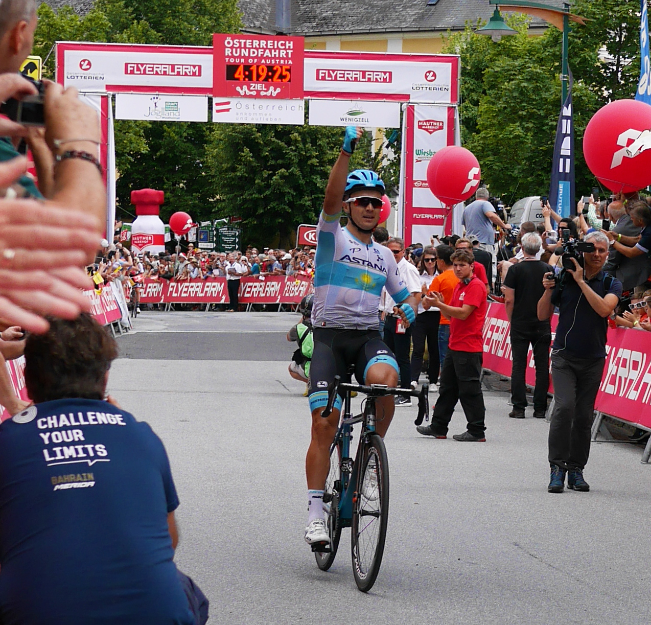 Alexey Lutsenko (Team Astana) winning Stage 6 Tour of Austria 2018 in Wenigzell